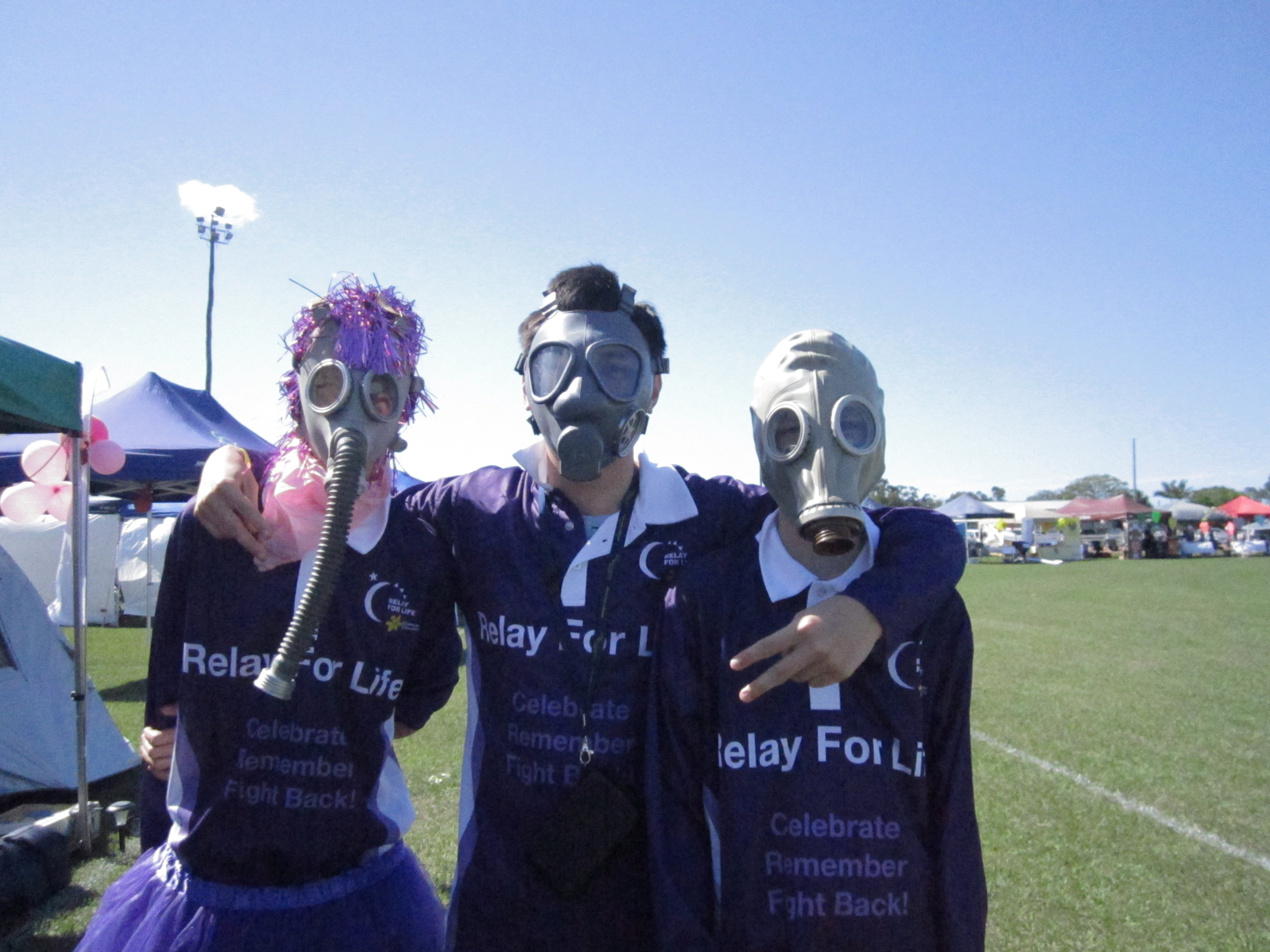 A group called the "Gas Mask guys" fundraising at Relay for life Bundaberg 2012